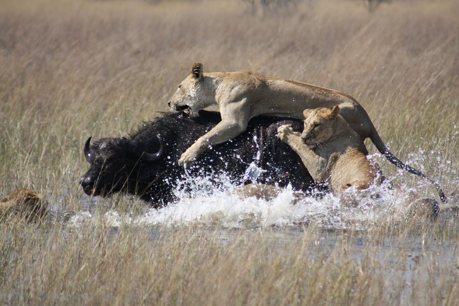 Eight lions stalking a herd of about 100 water buffalo in Okavango Delta, Botswana.